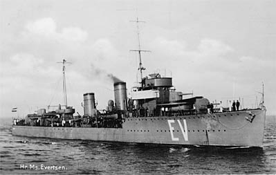 Destroyer HNLMS Evertsen (EV) at sea (1926-1942).